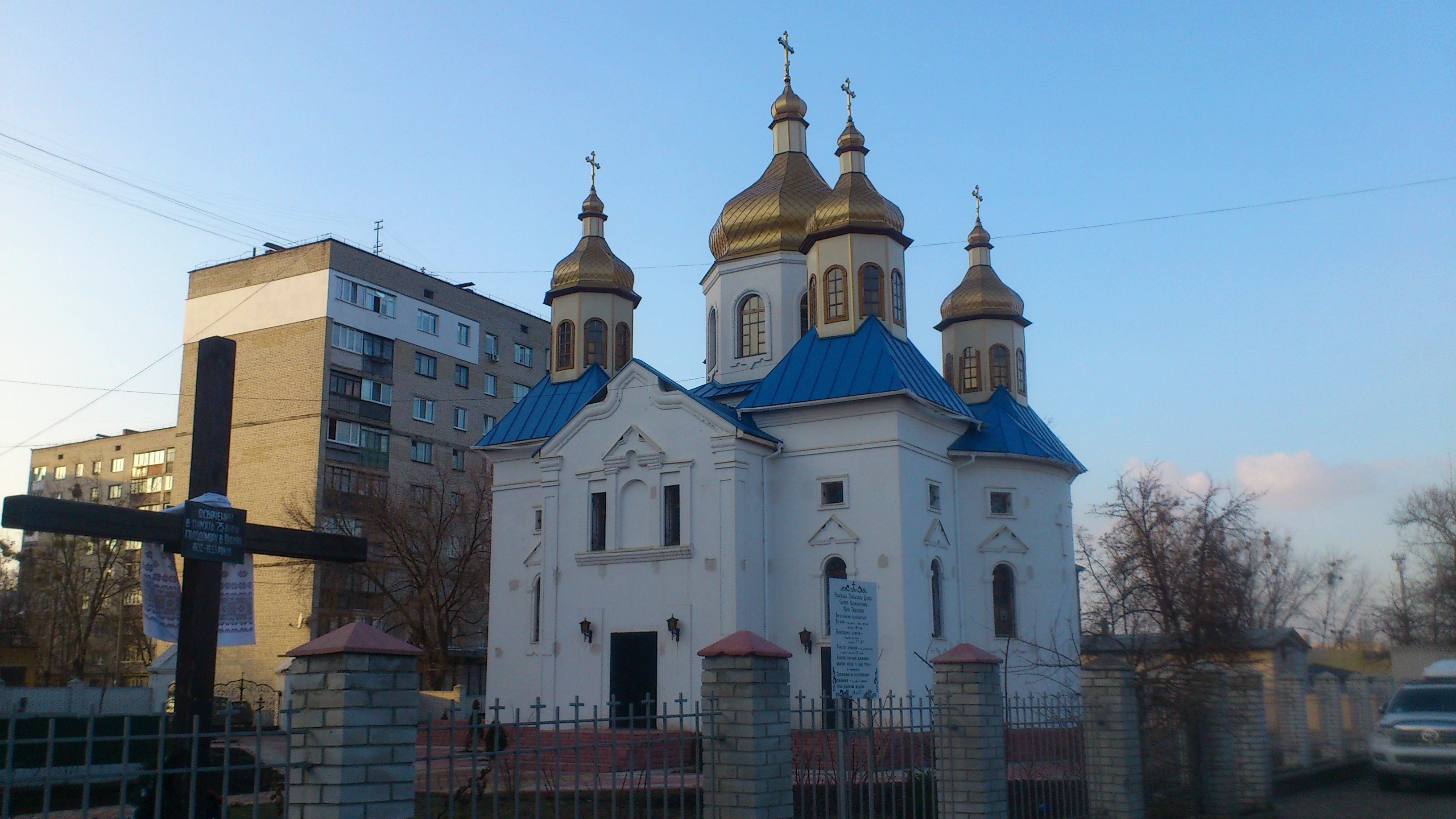 Church of Saint Great Martyr George the Victorious in Vyshneve